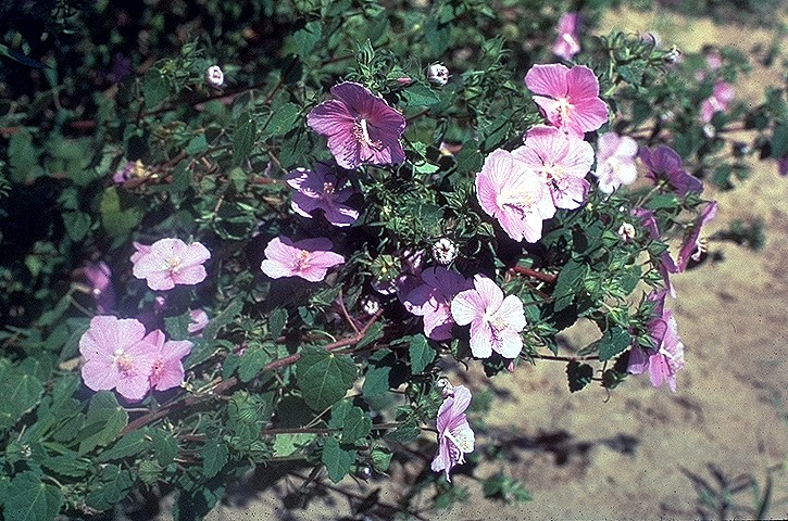 Pavonia lasiopetala